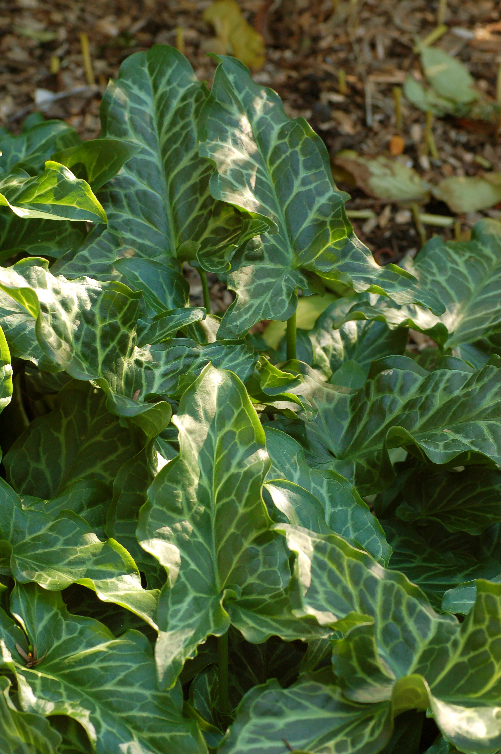 Photograph of the leaves of the Cuckoo Pinten (Arum italicum en ). Photo taken at the Tyler Arboretum where it was identified.